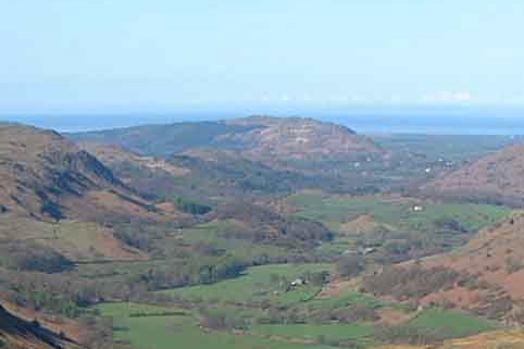 Eskdale (Cumbria, UK) with Muncaster Fell in the centre of the view. Personal photograph noriginally taken by Mick Knapton on April 19th 2005. Cropped for use in the Muncaster Fell article by John Chapman on 26th February 2008.